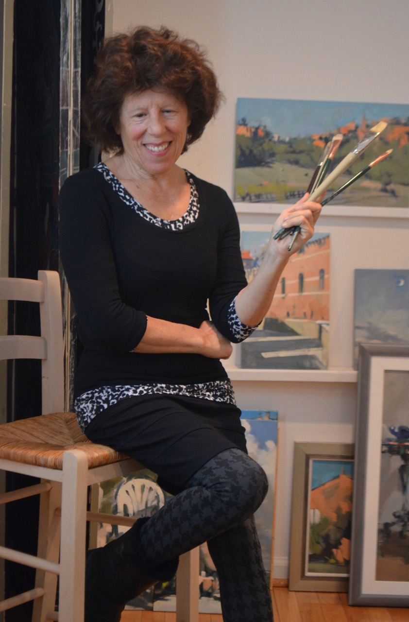 MaggieSinerPortrait